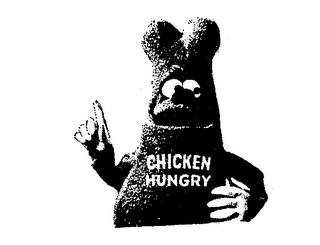 Image of the Chicken Hungry mascot used by the defunct Red Barn restaurant chain.